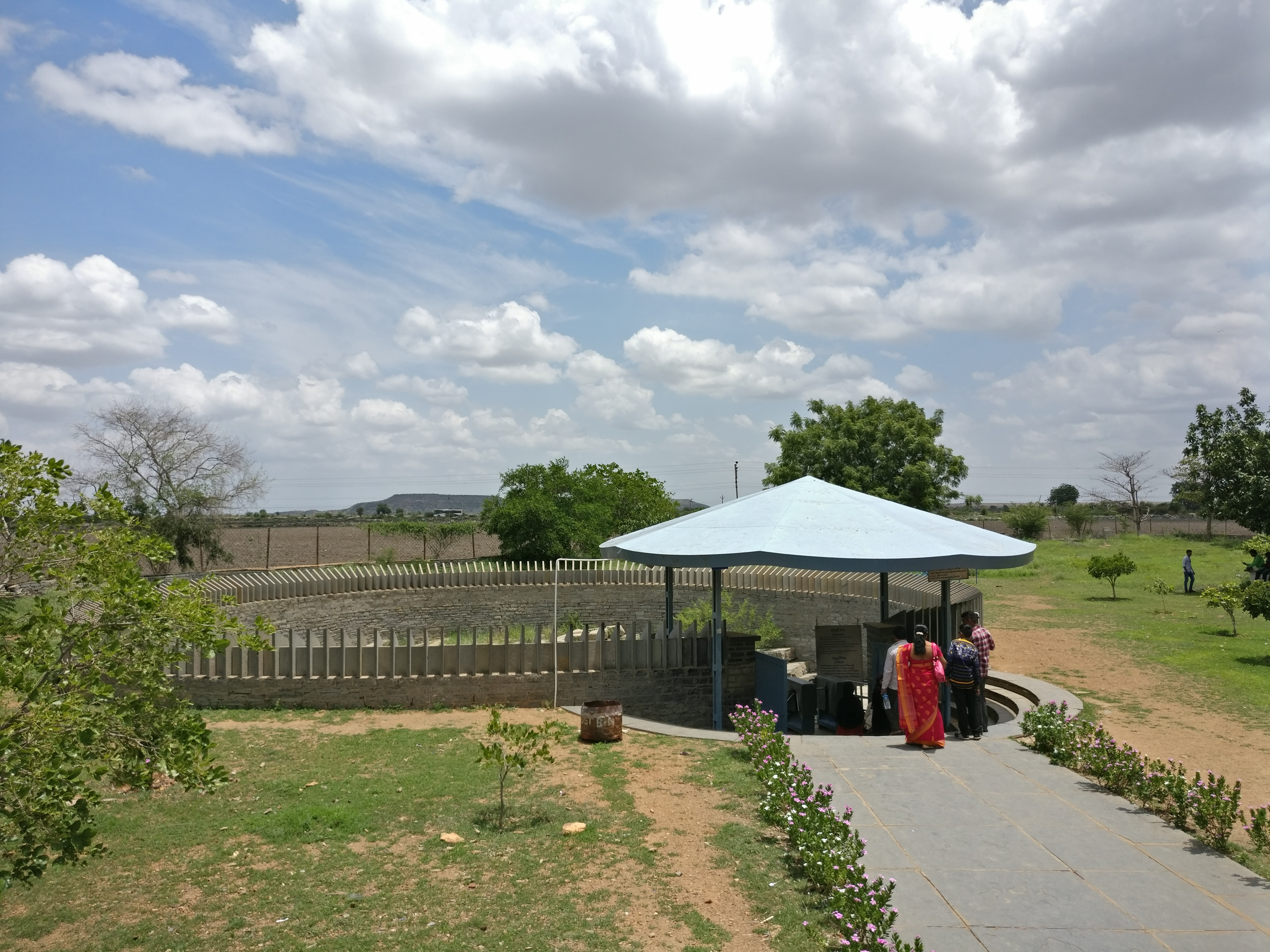 The Belum Caves is the largest and longest cave system open to the public on the Indian subcontinent